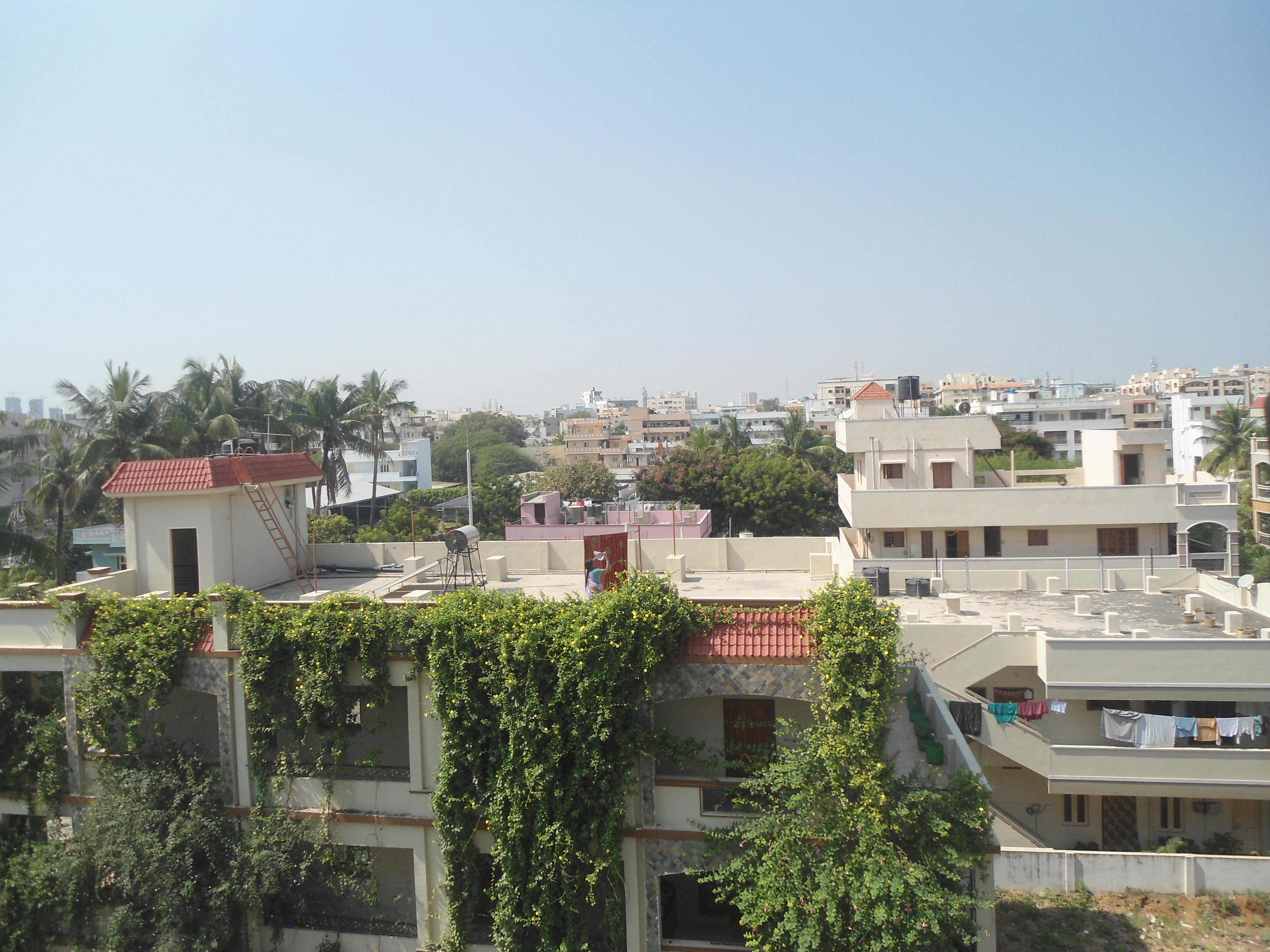 View of Kukatpally area in Hyderabad, India